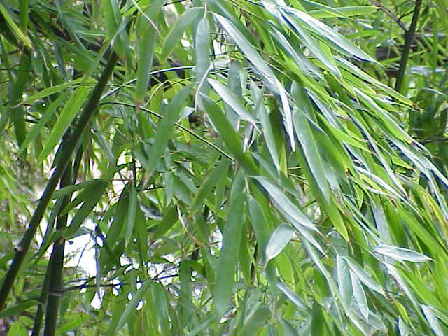 Species: Phyllostachys aurea Family: Poaceae Image No. 1